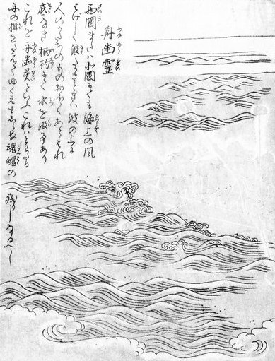 Funayūrei (船幽霊, ghosts of people dead at sea) from the Konjaku Gazu Zoku Hyakki (今昔画図続百鬼)